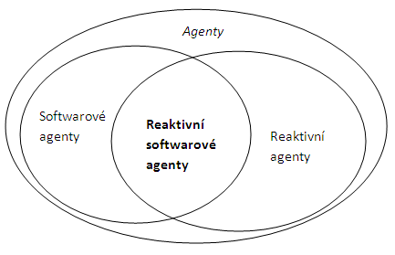 schema of reactive software agents